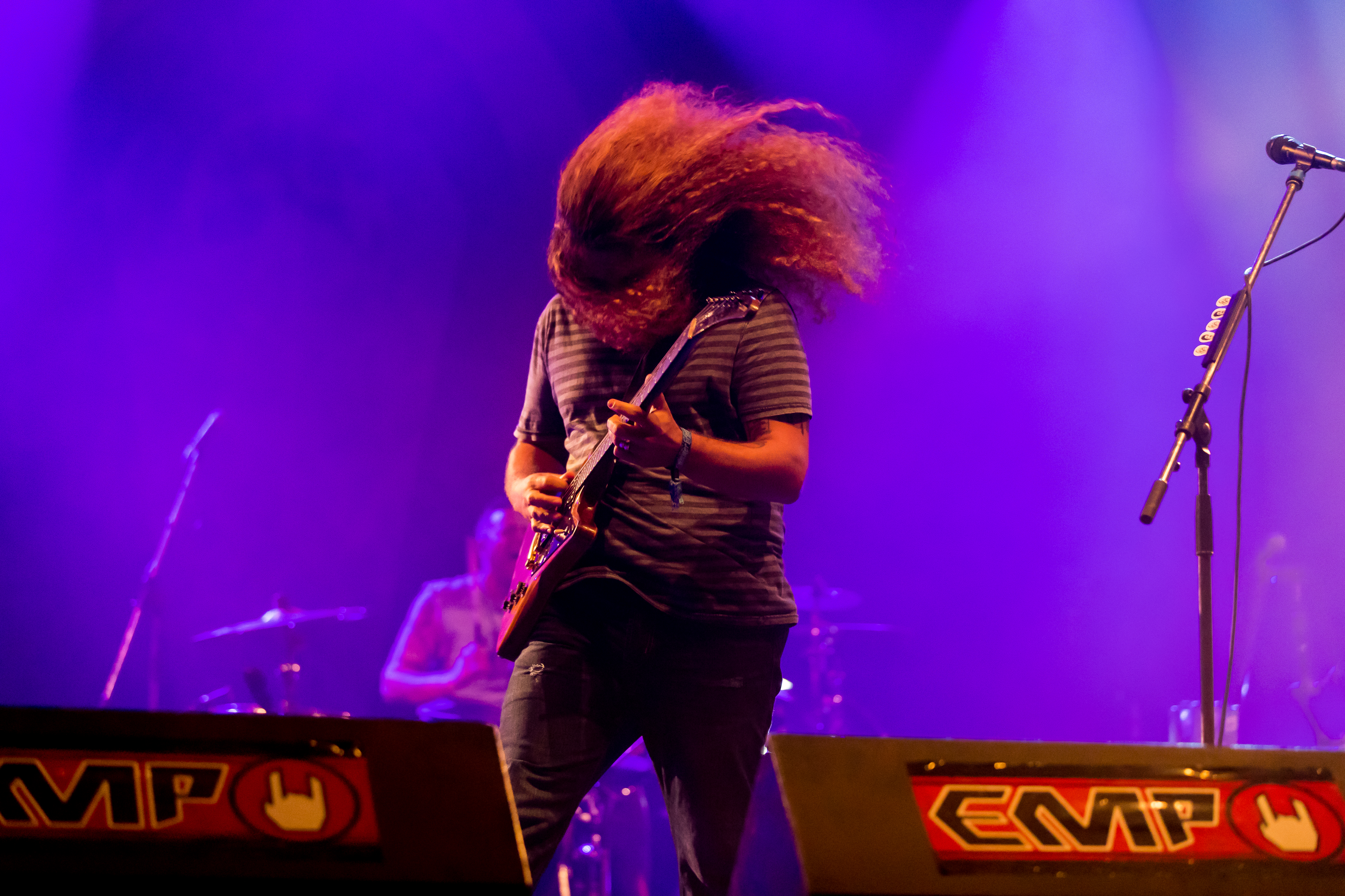 Coheed and Cambria during Summer Breeze 2016 at , Dinkelsbühl, Bayern, Germany on 2016-08-19, Photo: Sven Mandel